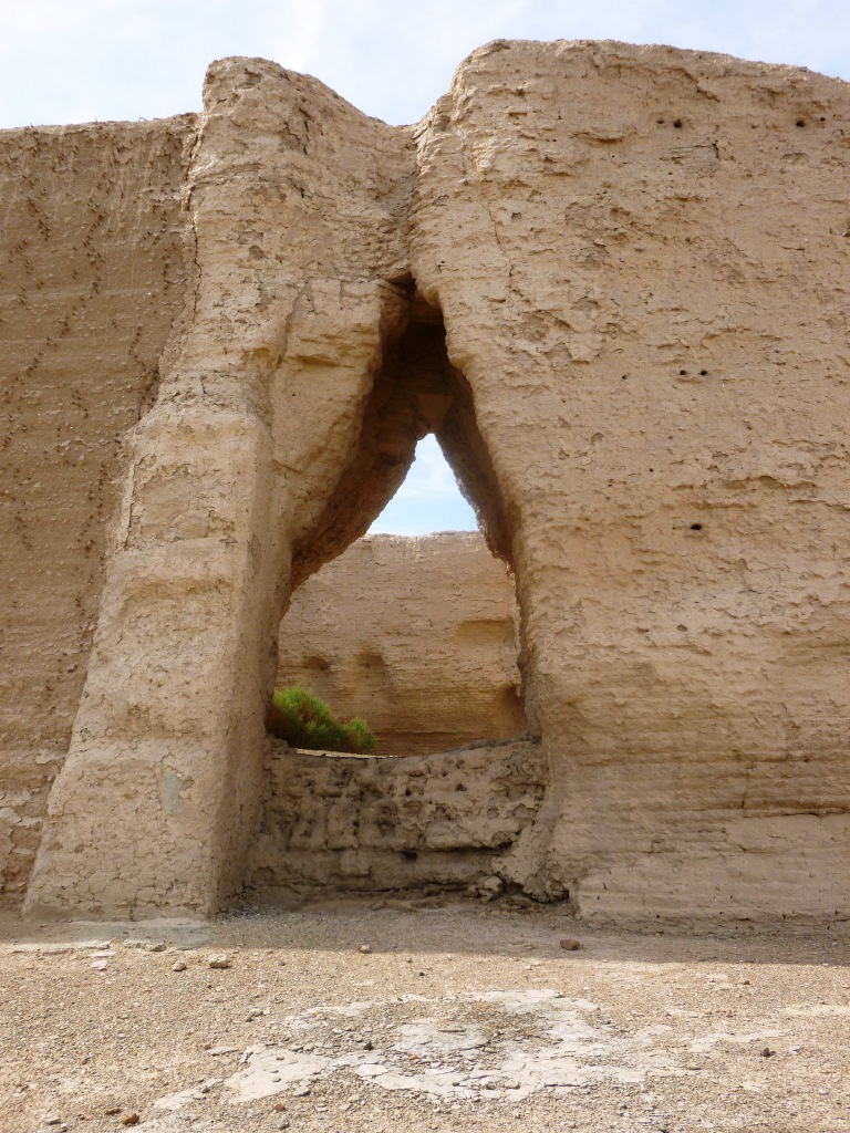 I took this photo on a trip in 2011.